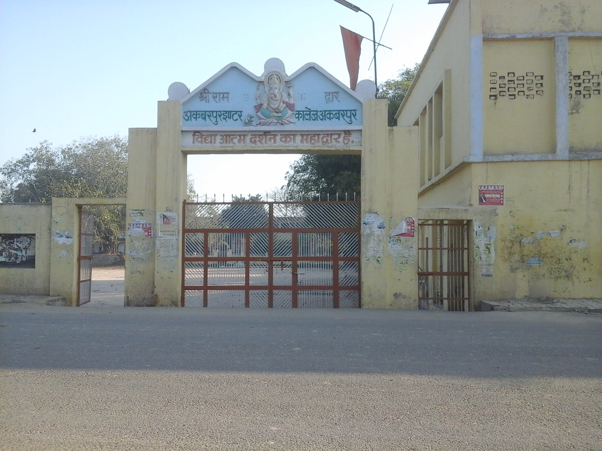 View of main gate of Akbarpur Inter College Akbarpur Kanpur Dehat,Uttar Pradesh,India